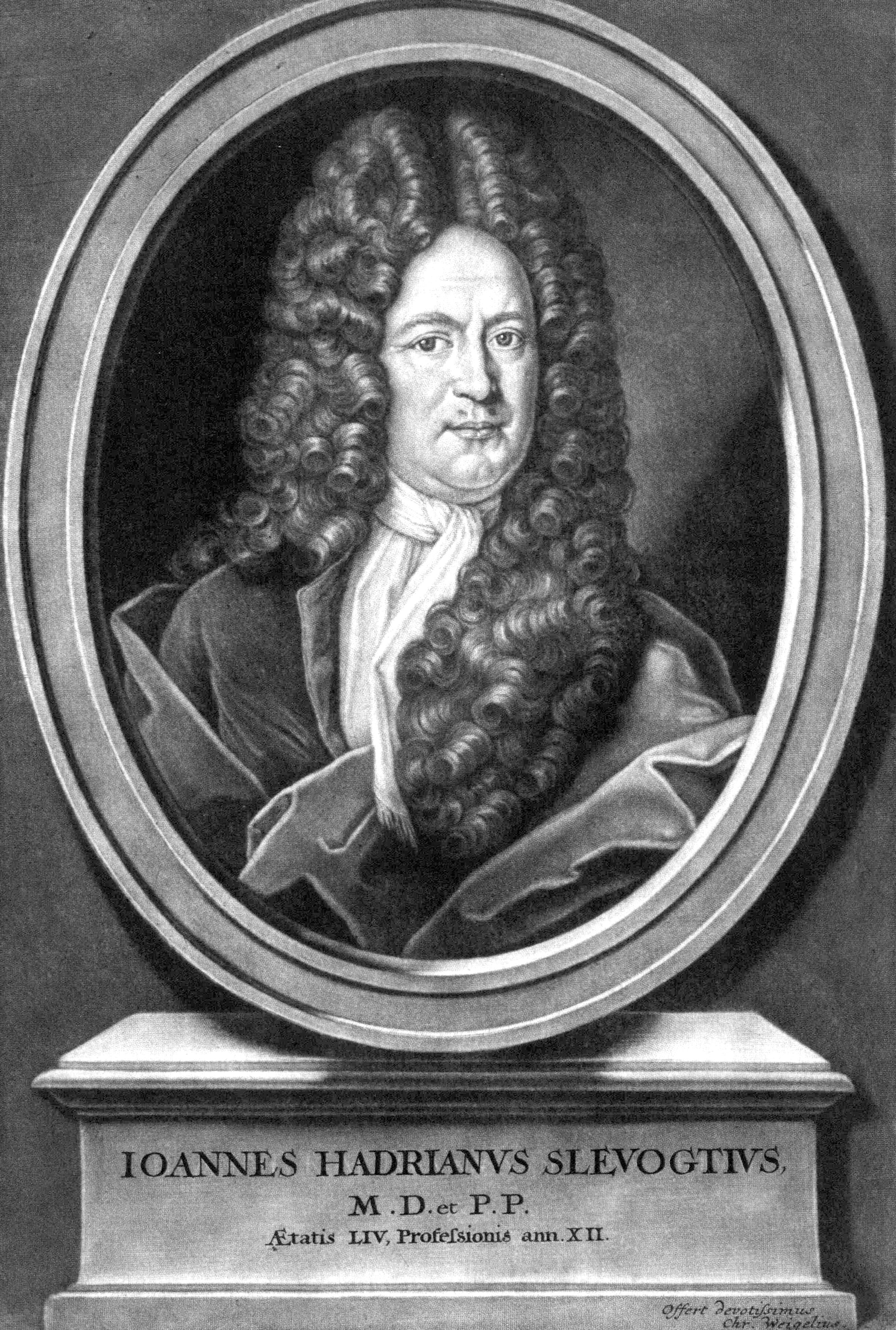 Johann Adrian Slevogt (1653-1726) german Physician